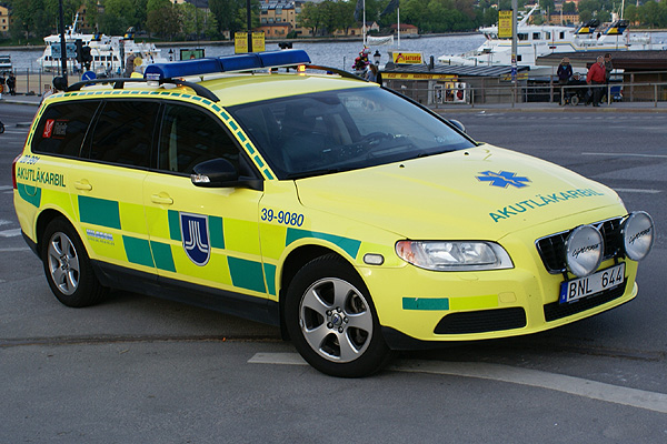 Doctor fly-car (Medic-car), Volvo V70, in Stockholm Sweden